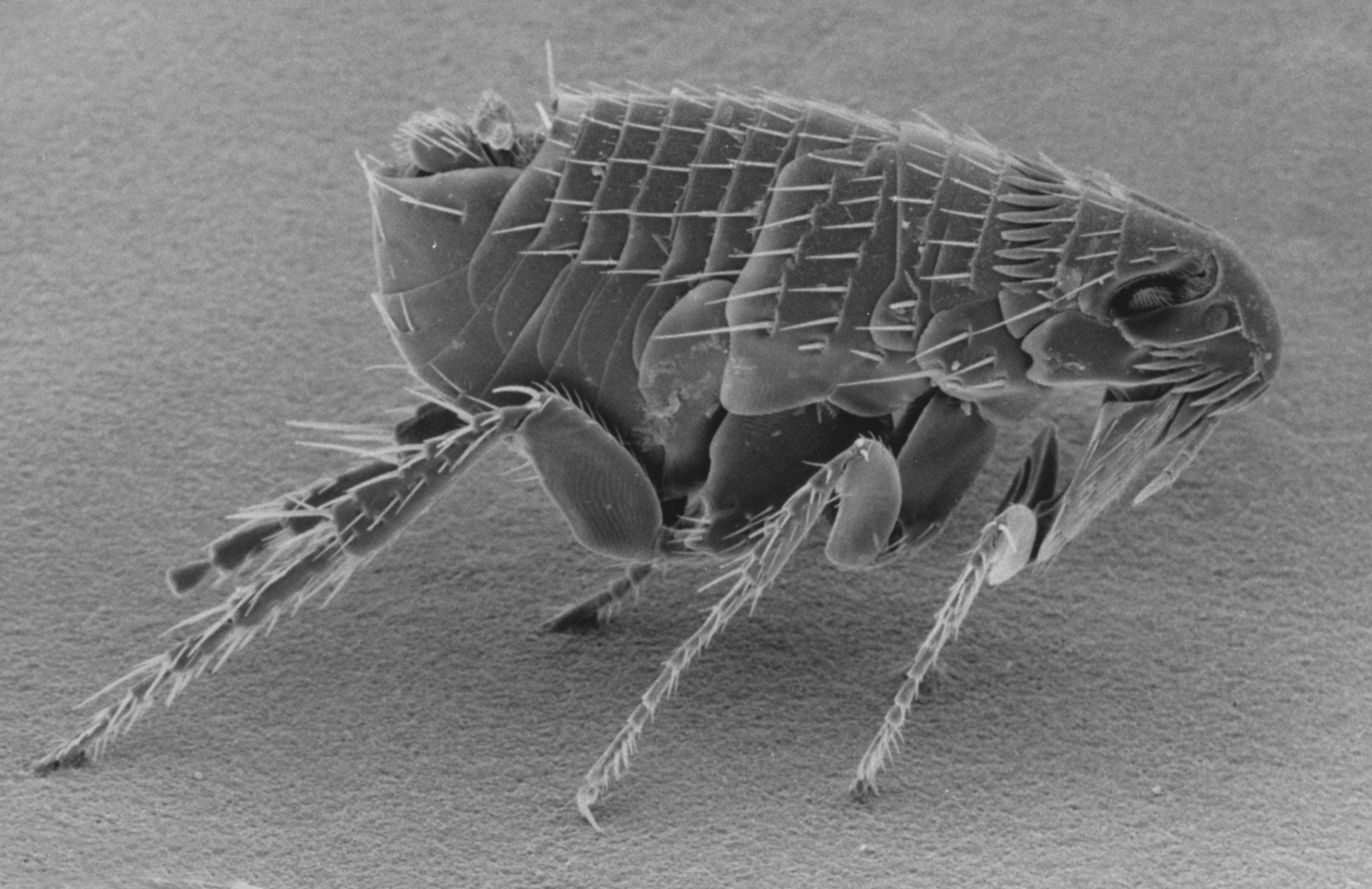 Adult flea of genus Ctenocephalides. Scanning electron micrograph.